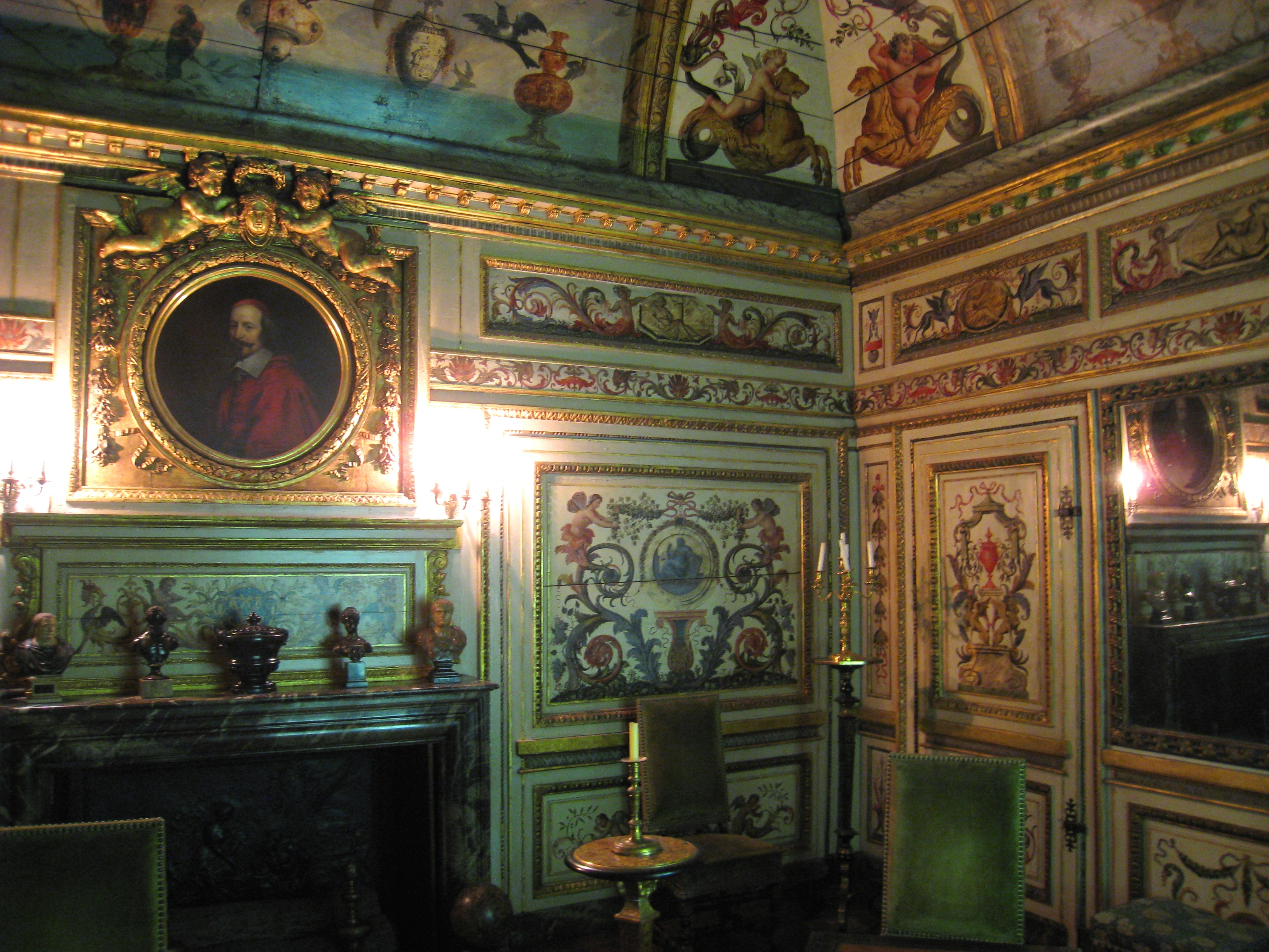 Musée Carnavalet, Paris, France - a room exhibit. This work is about two centuries old, and the museum imposed no restrictions on photography (except for prohibiting flash) both in writing and when I explicitly asked. Thus the original work itself is free from intellectual property restrictions.